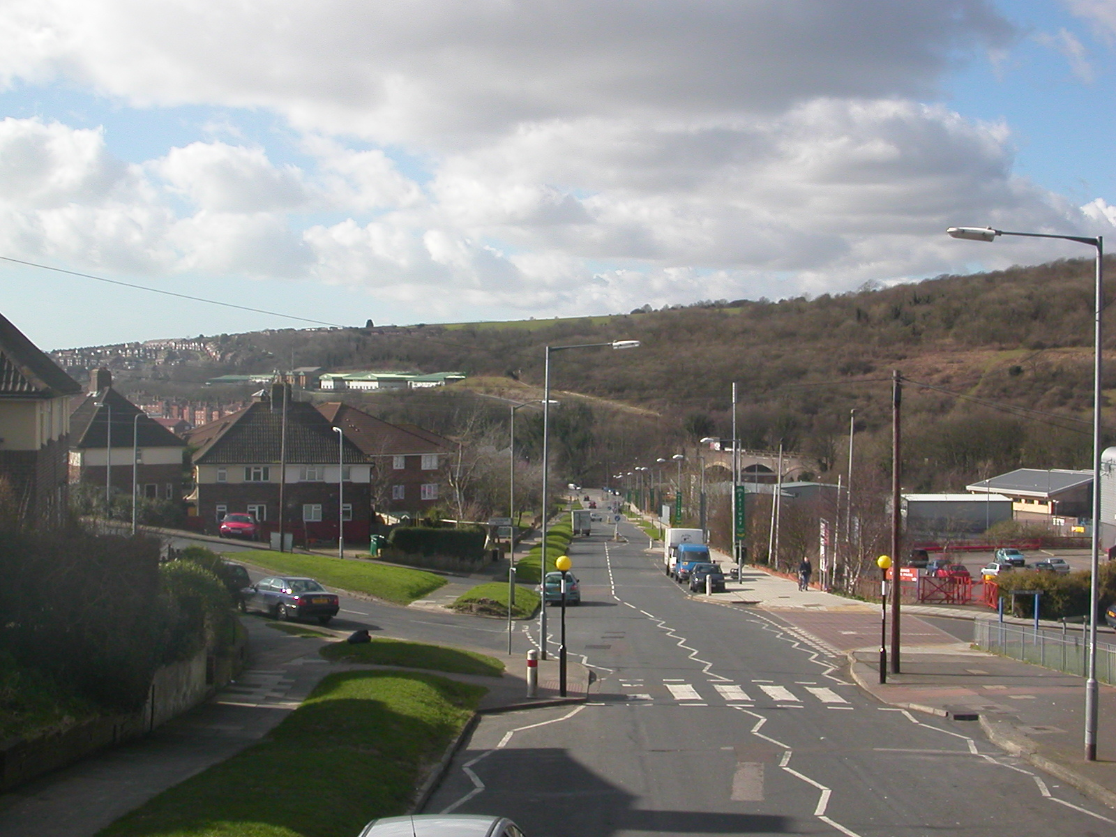 Looking down Moulsecoomb Way towards the A270 Lewes Road, Moulsecoomb, Brighton. Photographed on 3rd March 2007.